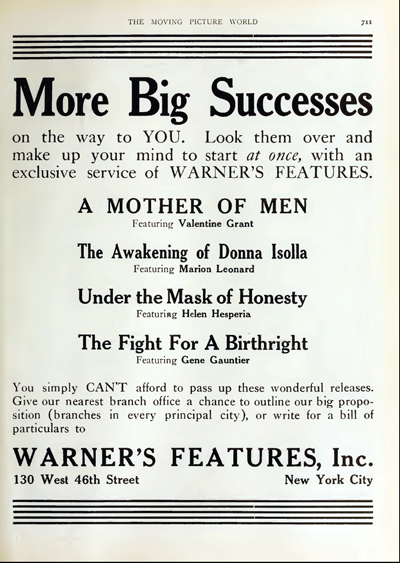 Advertising